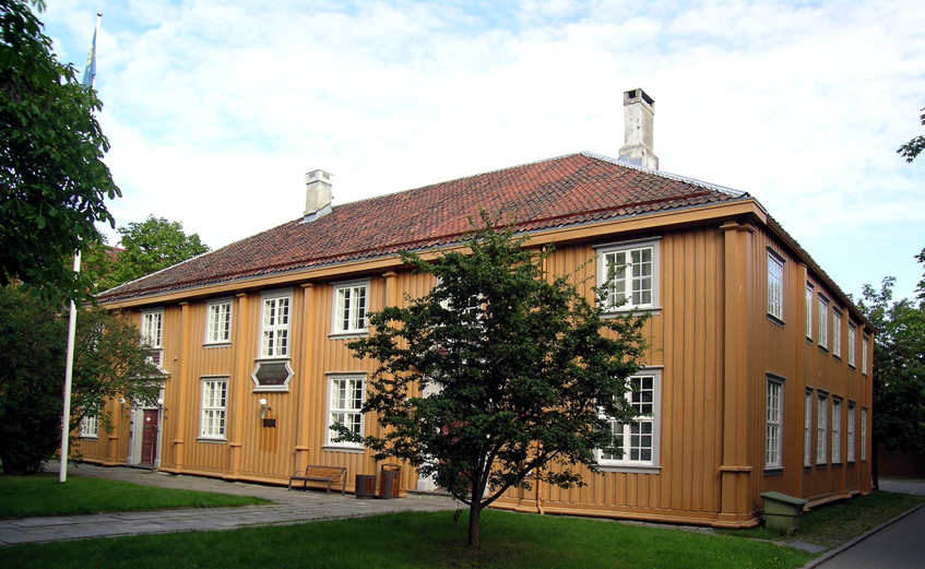 Frostating lagmannsrett, Erling Skakkes gate 60, Trondheim, Norway. Oldest part of Trondheim gaol, built 1733. Architect: Heinrich Kühnemann. Protected by law.